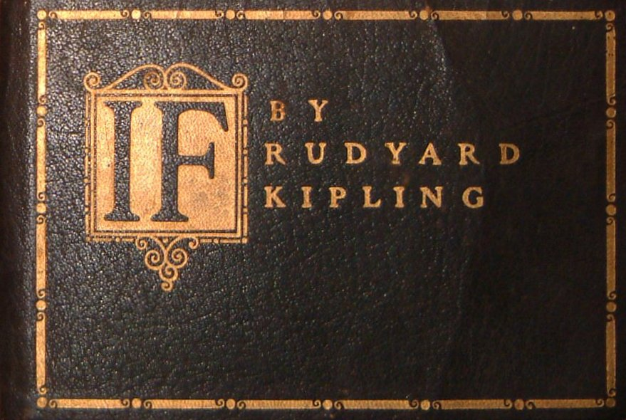 Cover of an edition of If— by Doubleday Page & Company, New York